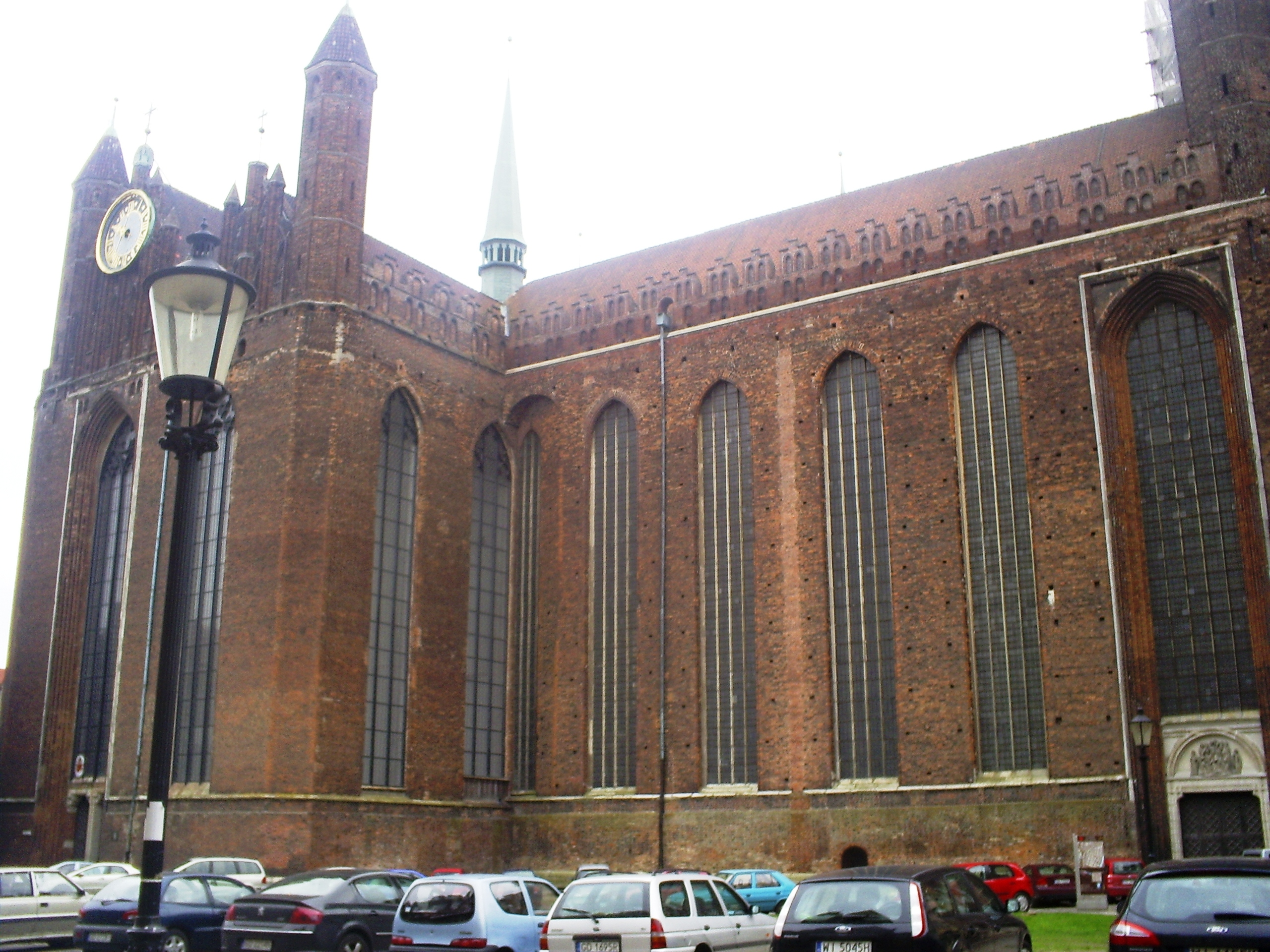 It;s a church MAriacki